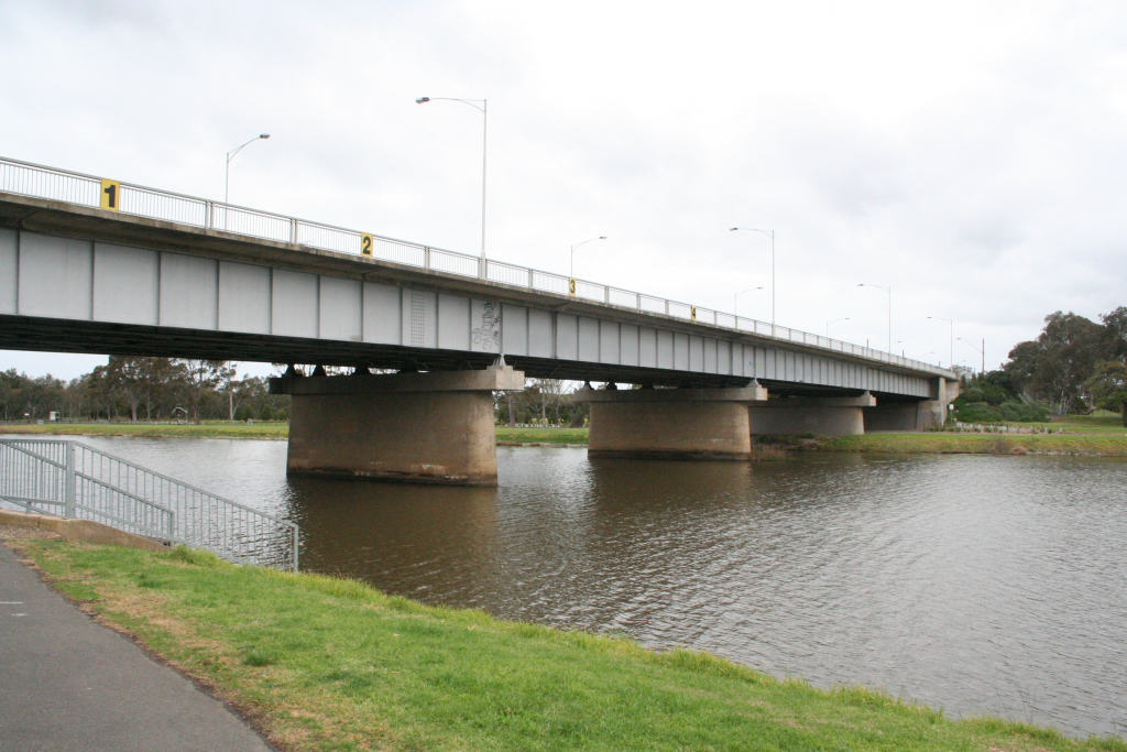 Barwon Bridge or Moorabool Street bridge over the Barwon River - Geelong, Victoria, Australia